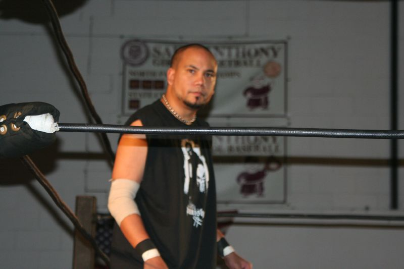 Professional wrestler B-Boy (real name Benjamin Cuntapay) at a Jersey All Pro Wrestling show in November 2008